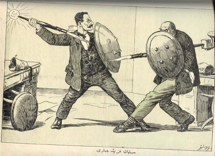 Caricature in "Molla Nasreddin" satirical magazine